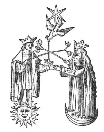 The King and the Queen in Alchimy